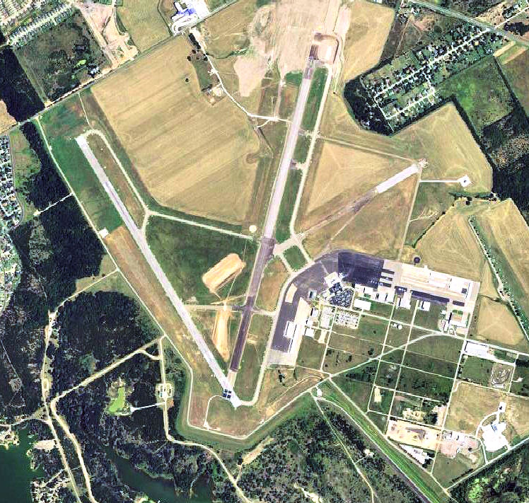 USGS digital orthophoto of Waco Regional Airport, formerly Blackland Army Airfield, in Waco, Texas, United States.